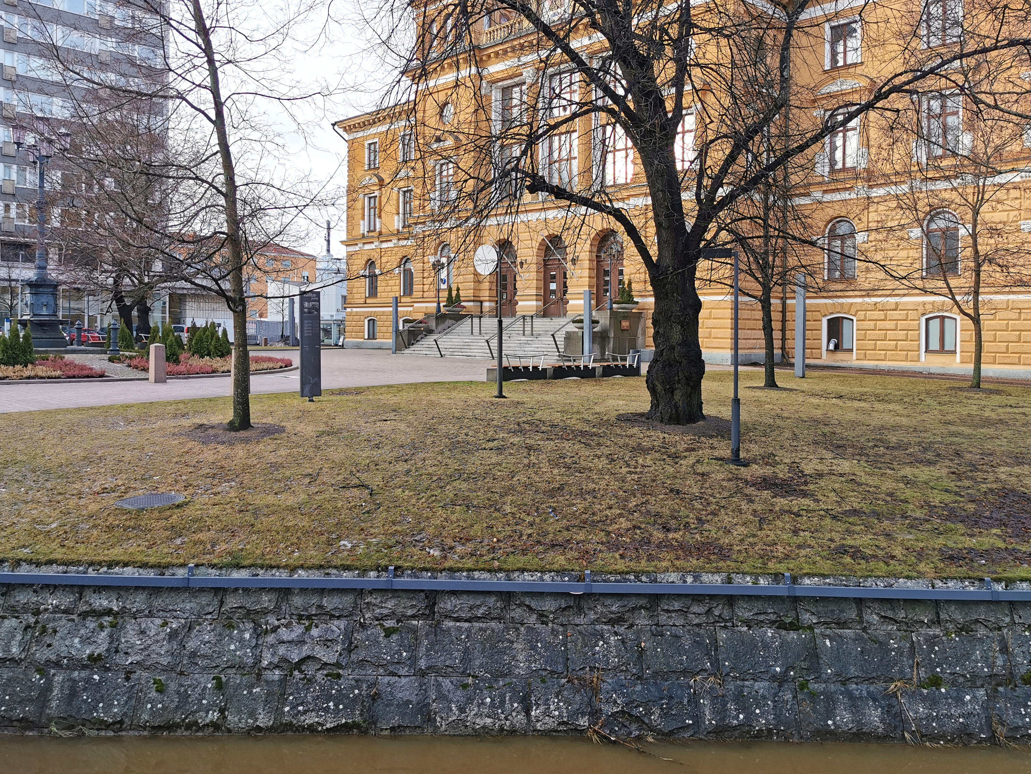 The Hallituspuisto park in Oulu.